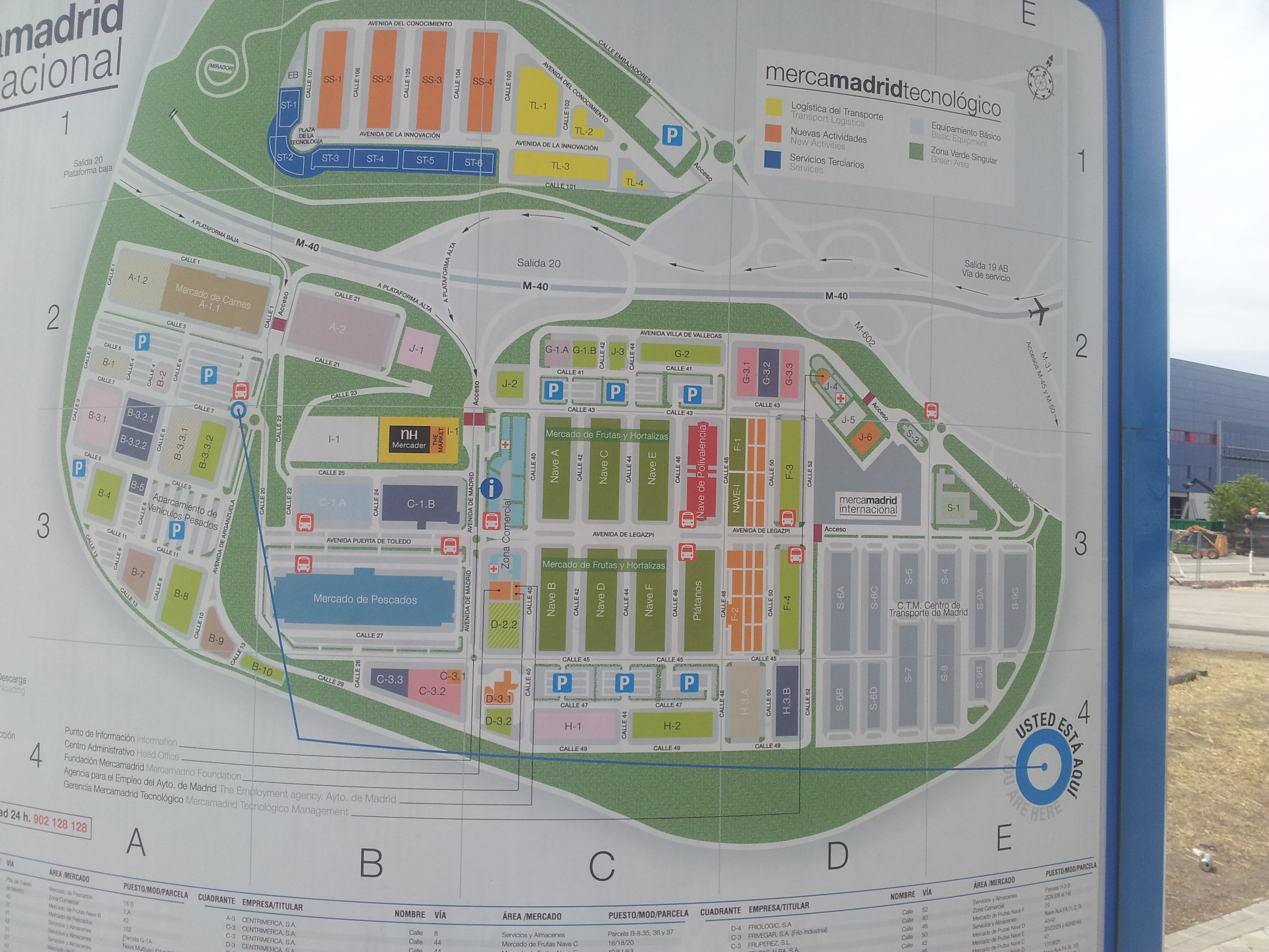 Mercamadrid